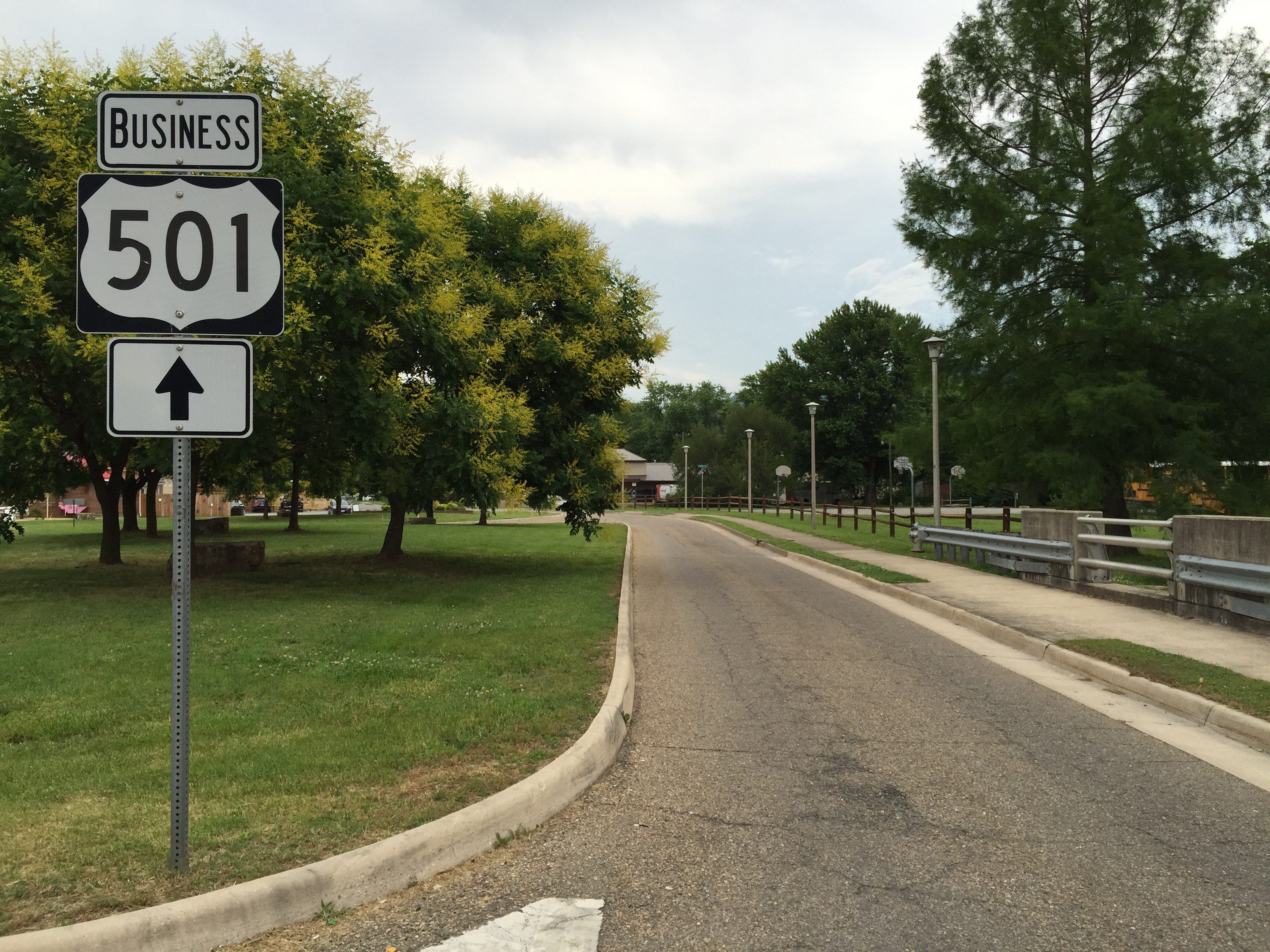 View north along U.S. Route 501 Business (Magnolia Avenue) at U.S. Route 501 (Sycamore Avenue) in Buena Vista, Virginia